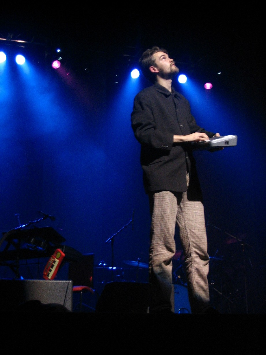 Guillemots Birmingham Symphony Hall 06.12.05